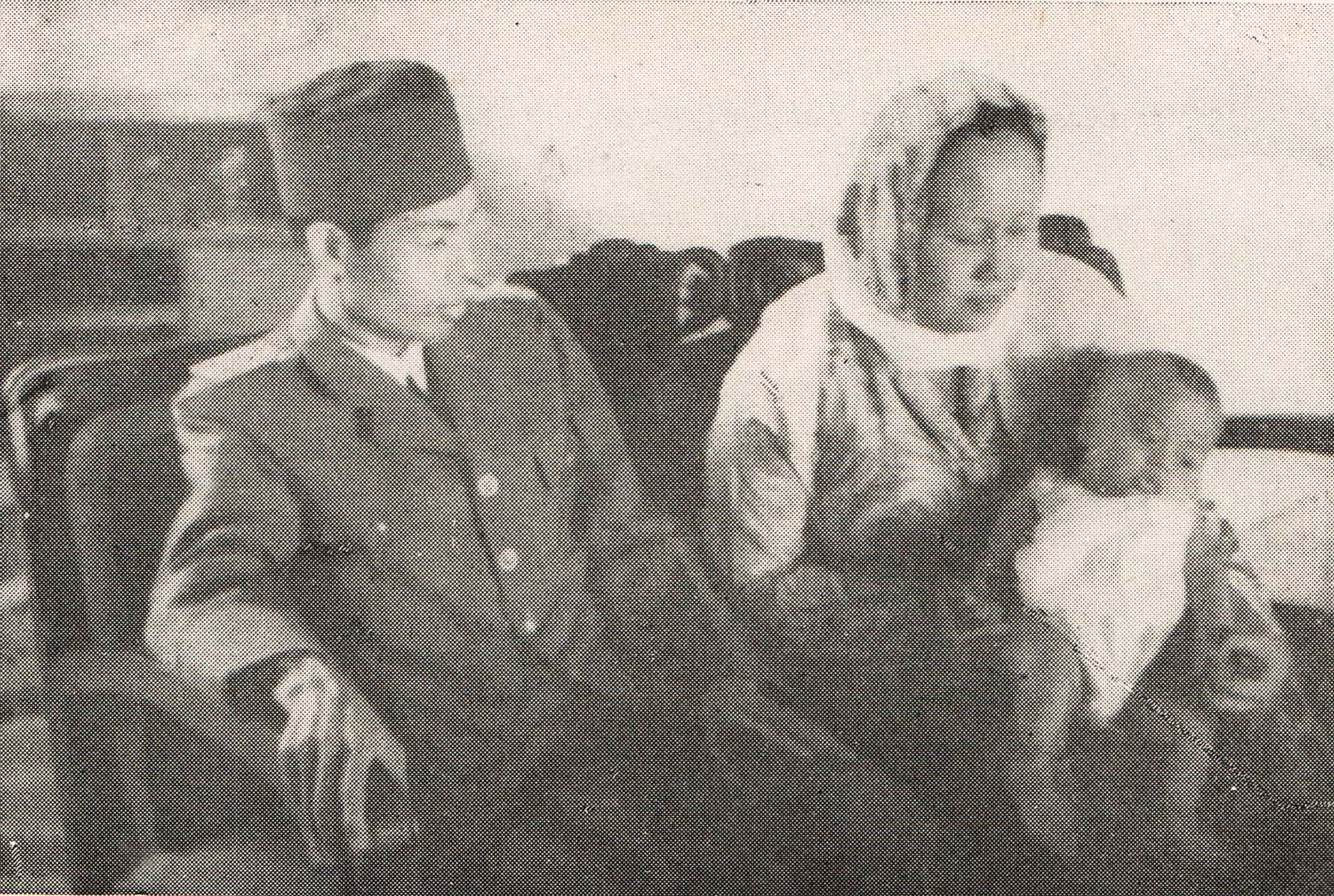 Sudirman, his wife, and youngest child